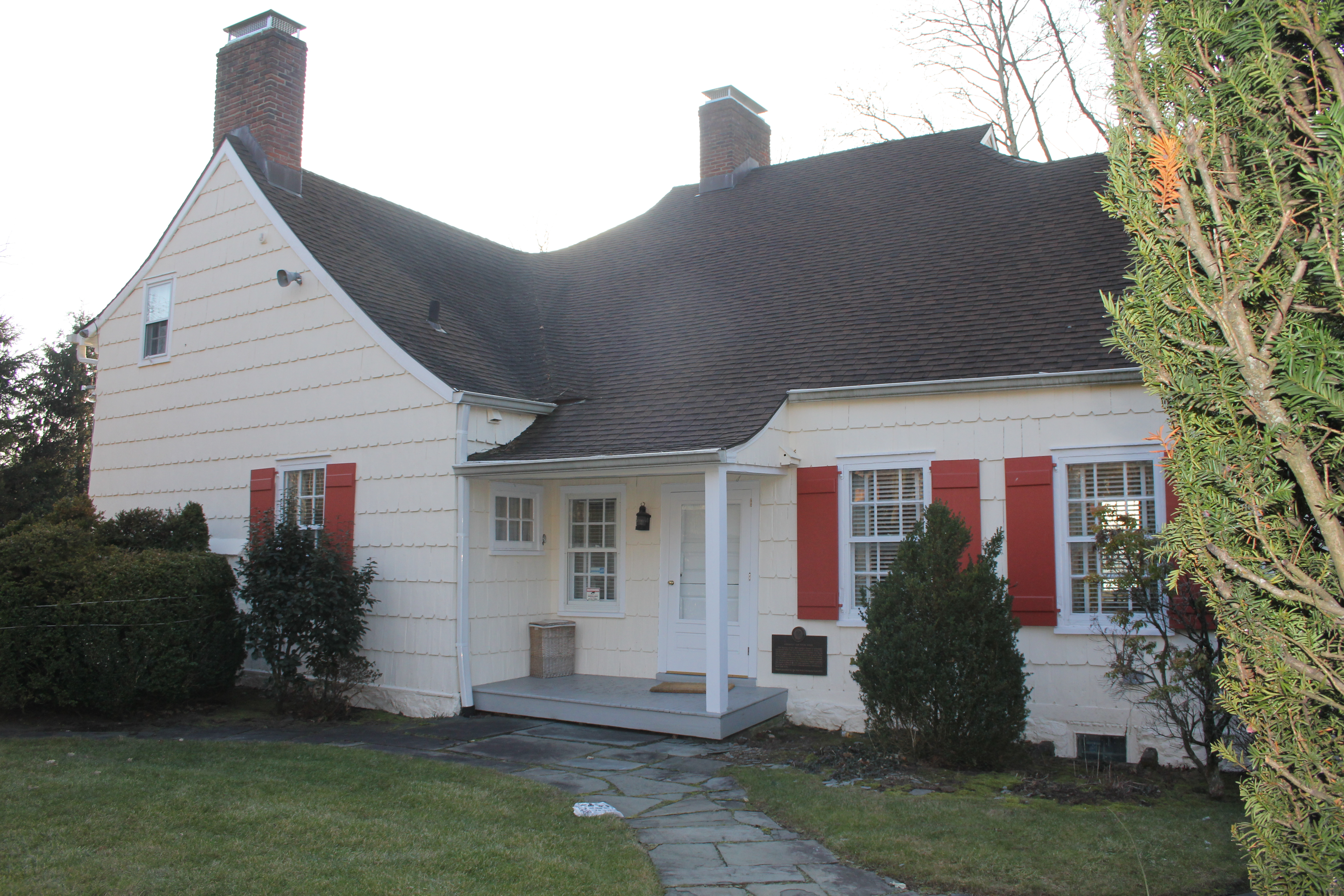 Cornelius Van Wyck House, Douglaston, borough of Queens, New York City. Dutch Colonial house dates to 1735.